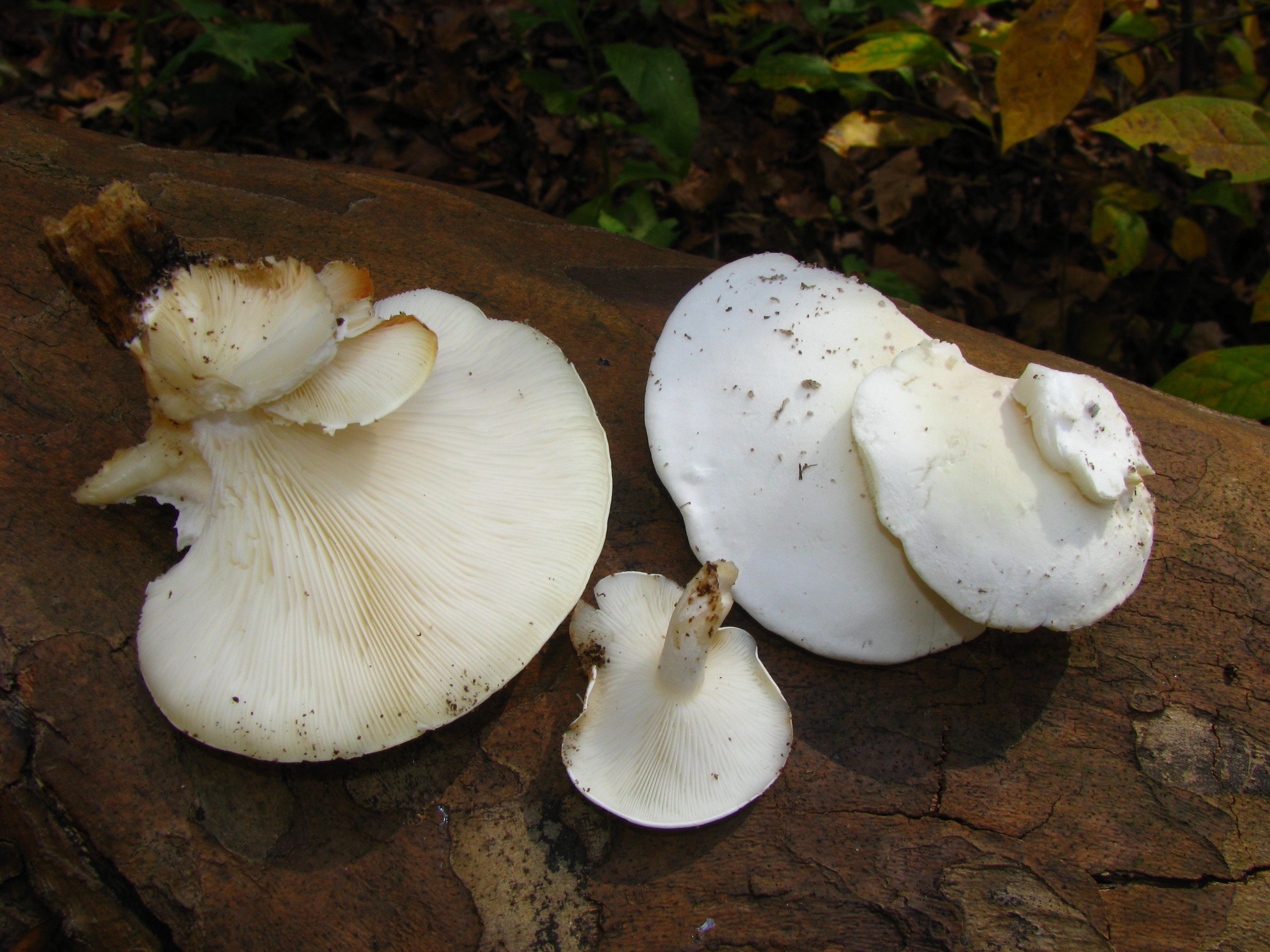 Fruit bodies of the fungus Ossicaulis lignatilis (Pers.) Redhead & Ginns. Specimens photographed in Strouds Run State Park, Athens, Ohio, USA.